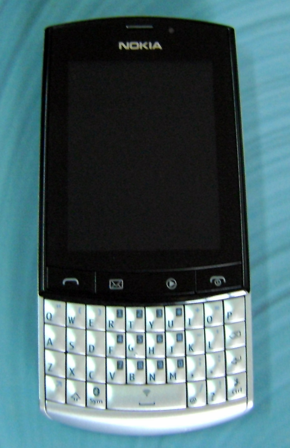 Image of Nokia Asha 303 with display turned off.